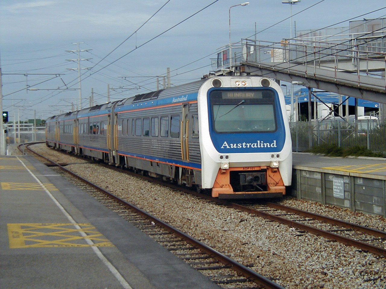 Transwa Australind at Claisebrook railway station, Perth.